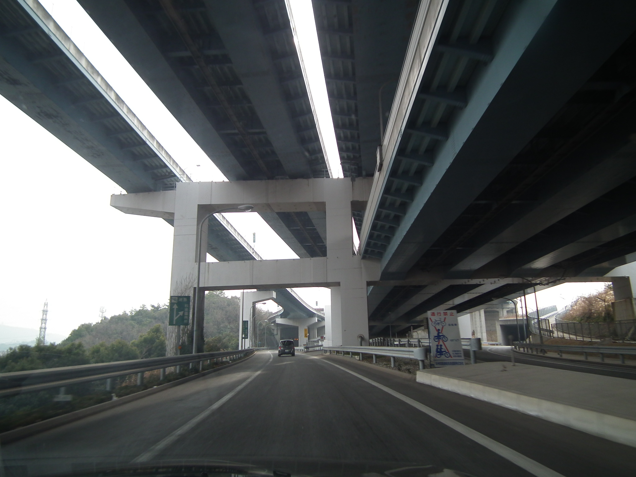 Tarumi Interchange/Tarumi Junction